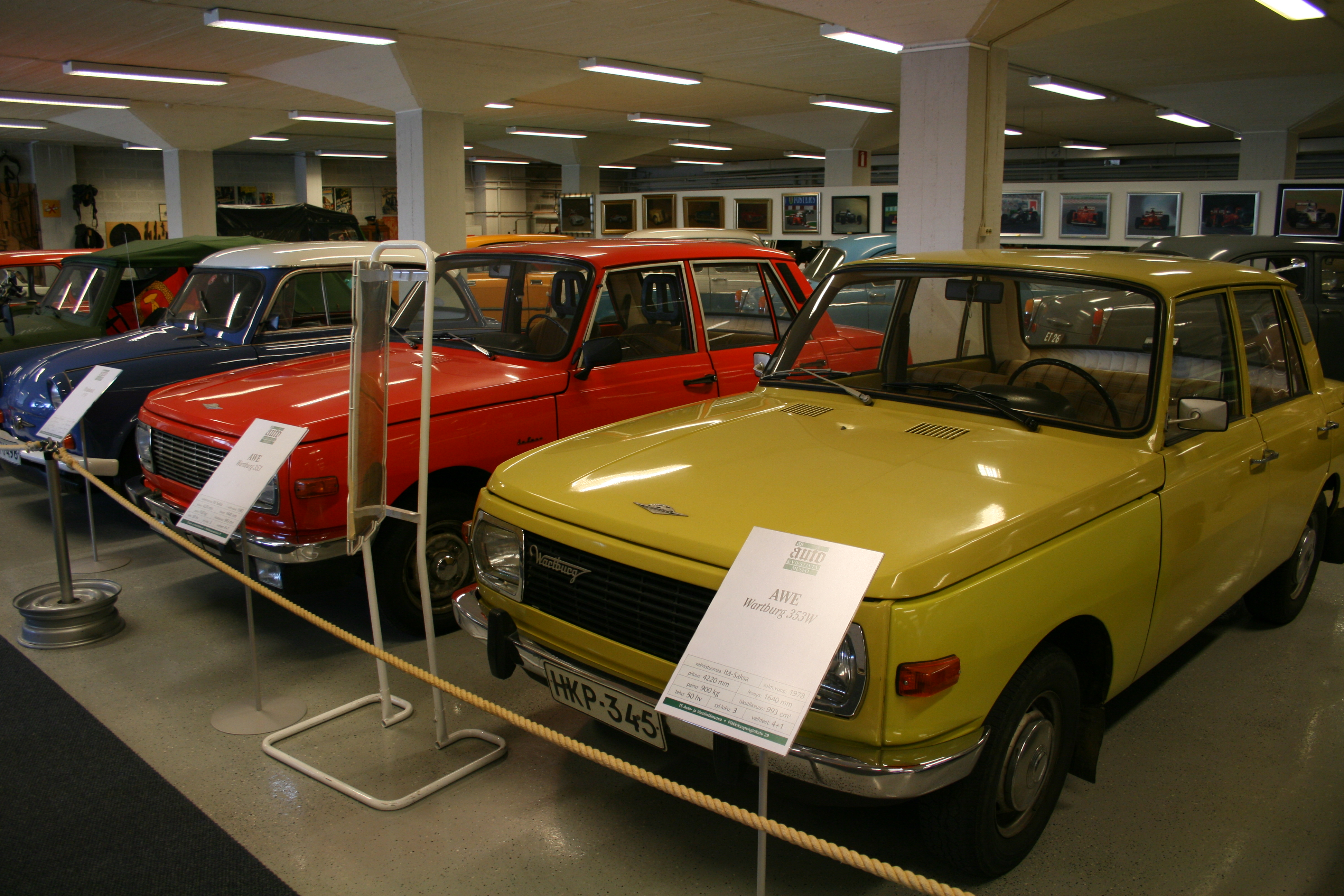 Wartburg 353 and Wartbrg 353W at the Car and Communication Museum in Finland.